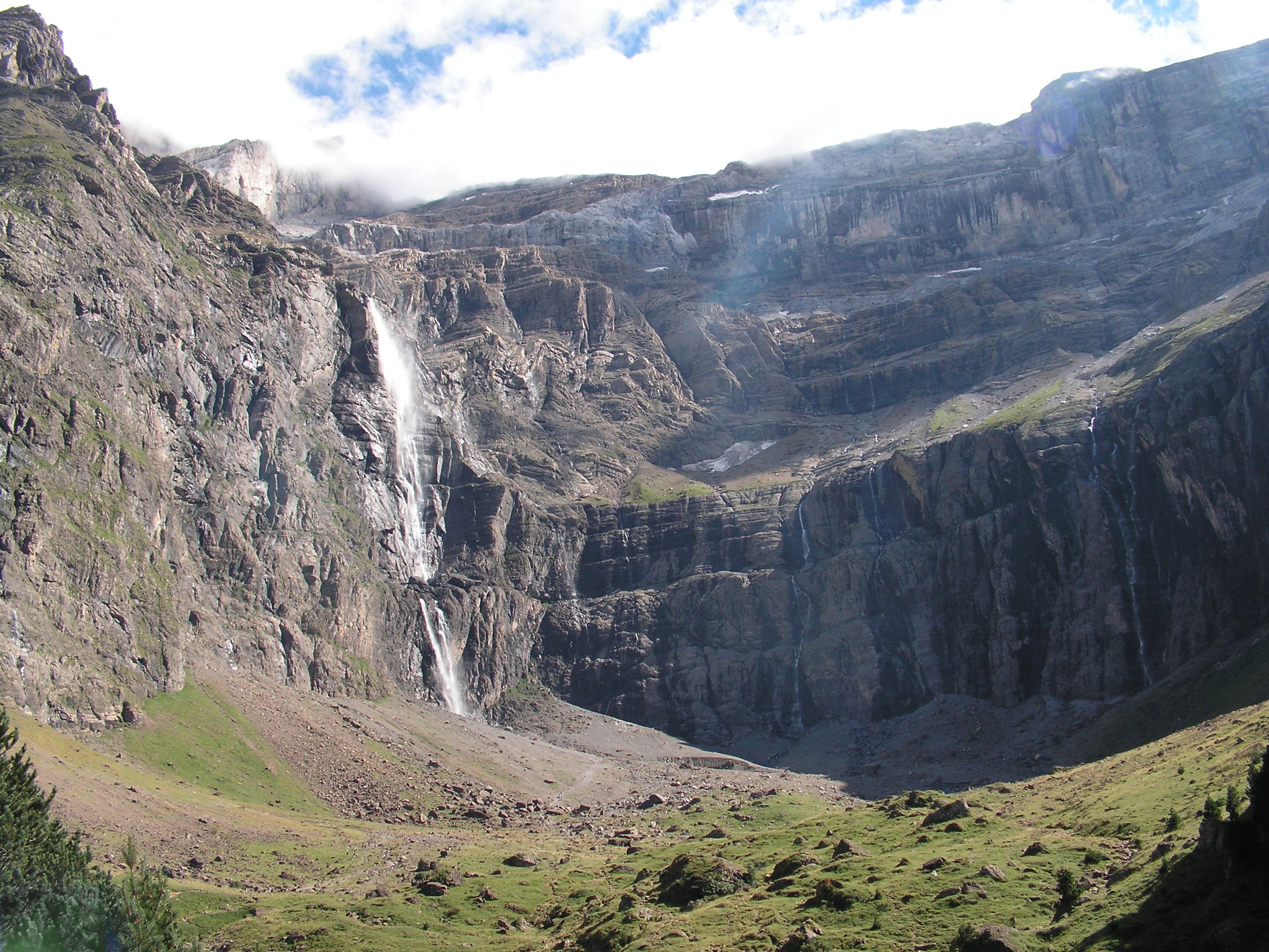 Cirque De Gavarnie, French Pyrenees, with the Gavarnie Falls to the left. Taken By Jens Buurgaard Nielsen on August 2nd, 2005.